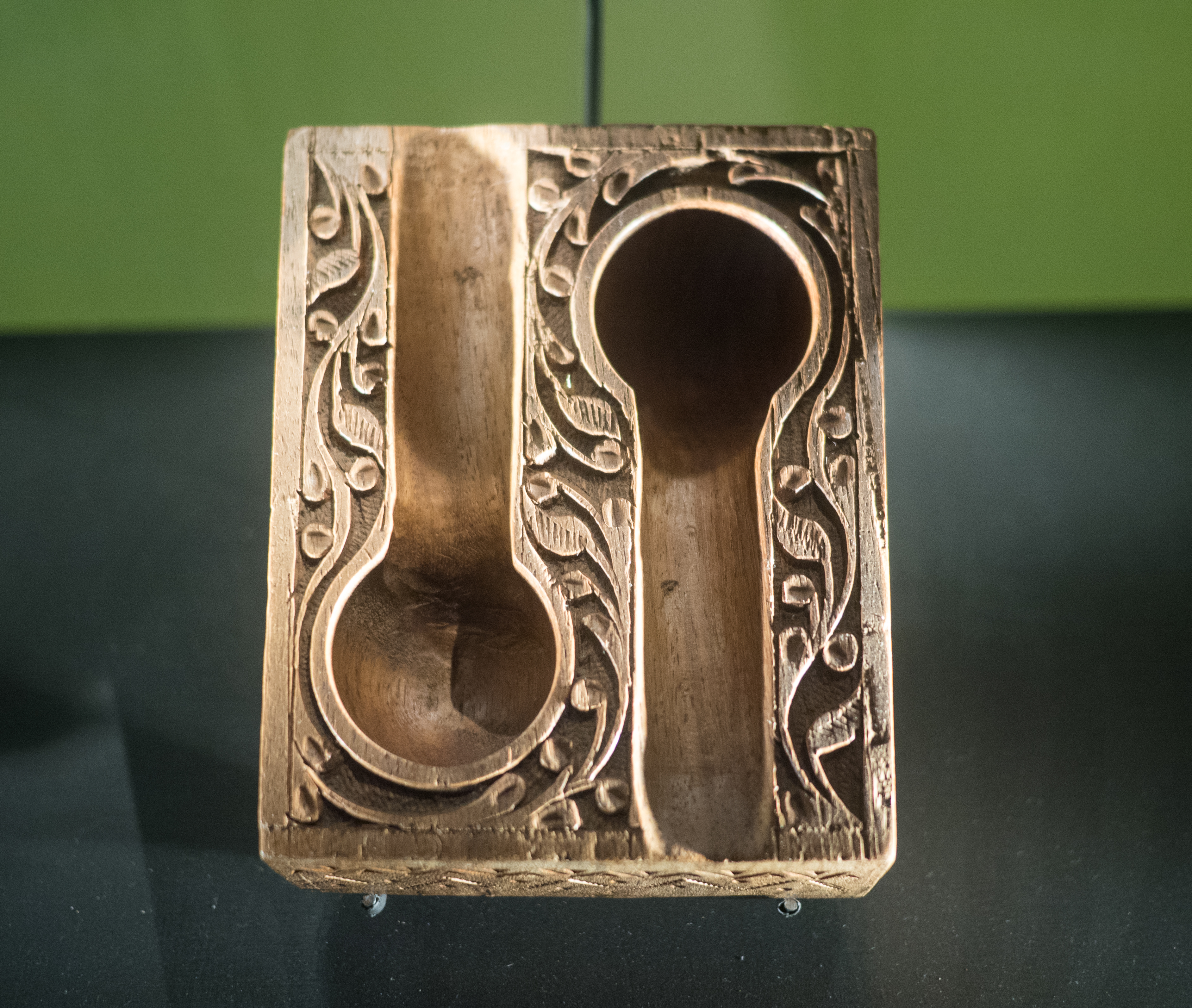 Oliver Williamson's pipe holder at the Nobel Museum in Stockholm